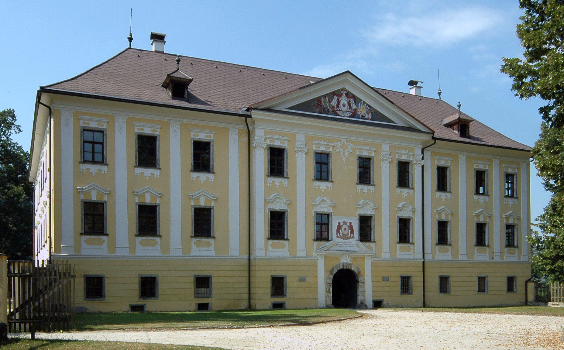 Castle of Fürst Orsini-Rosenberg, market town Grafenstein, district Klagenfurt Land, Carinthia, Austria, European Union